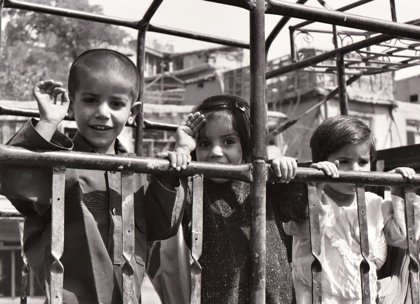 Afghan children ride in the bed of a truck in downtown Kabul (June 2003). Photo by Peter Rimar.